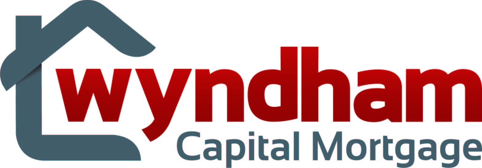 Wyndham Capital logo.